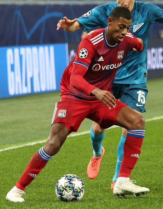 Jeff Reine-Adélaïde with Lyon in a Champions League game against FC Zenit Saint Petersburg.